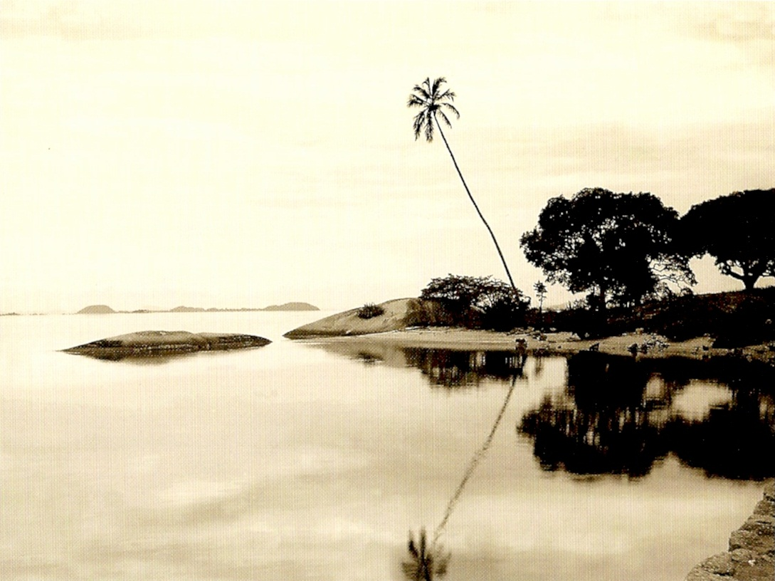 Paquetá island in Rio de Janeiro, Brazil, 1885.